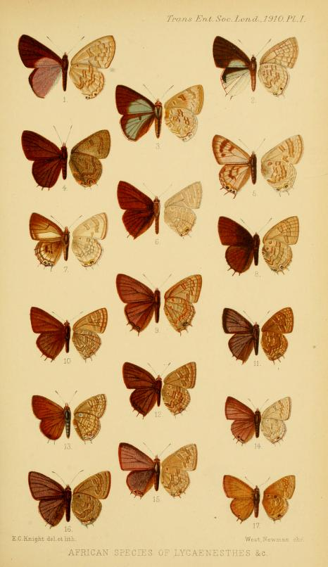 TransEntSocLond1910Plate1 Explanation of Plate I. Fig. 1.Cupidesthes voltae male Fig 2. C arescopa male Fig. 3 C. robusta male Fig. 4. Lycaenesthis ituria male Fig. 5. L definita female Fig. 6. L definita male Fig. 7. L indefinita female Fig. 8. L indefinita male Fig. 9. L hobleyi male Fig. 10. L chirinda male Fig. 11. L alberta male Fig. 12. L afra male. Fig. 13. L smithi male Fig. 14. L liode male Fig. 15. L bihe male Fig. 16. L nigropunctata male Fig. 17. L princeps male